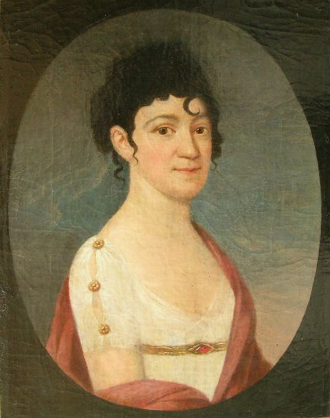 Portrait of Hungarian-German writer and poet, Therese von Artner